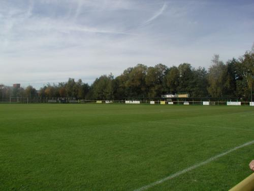 Plyground FC Buldocs in Dvory